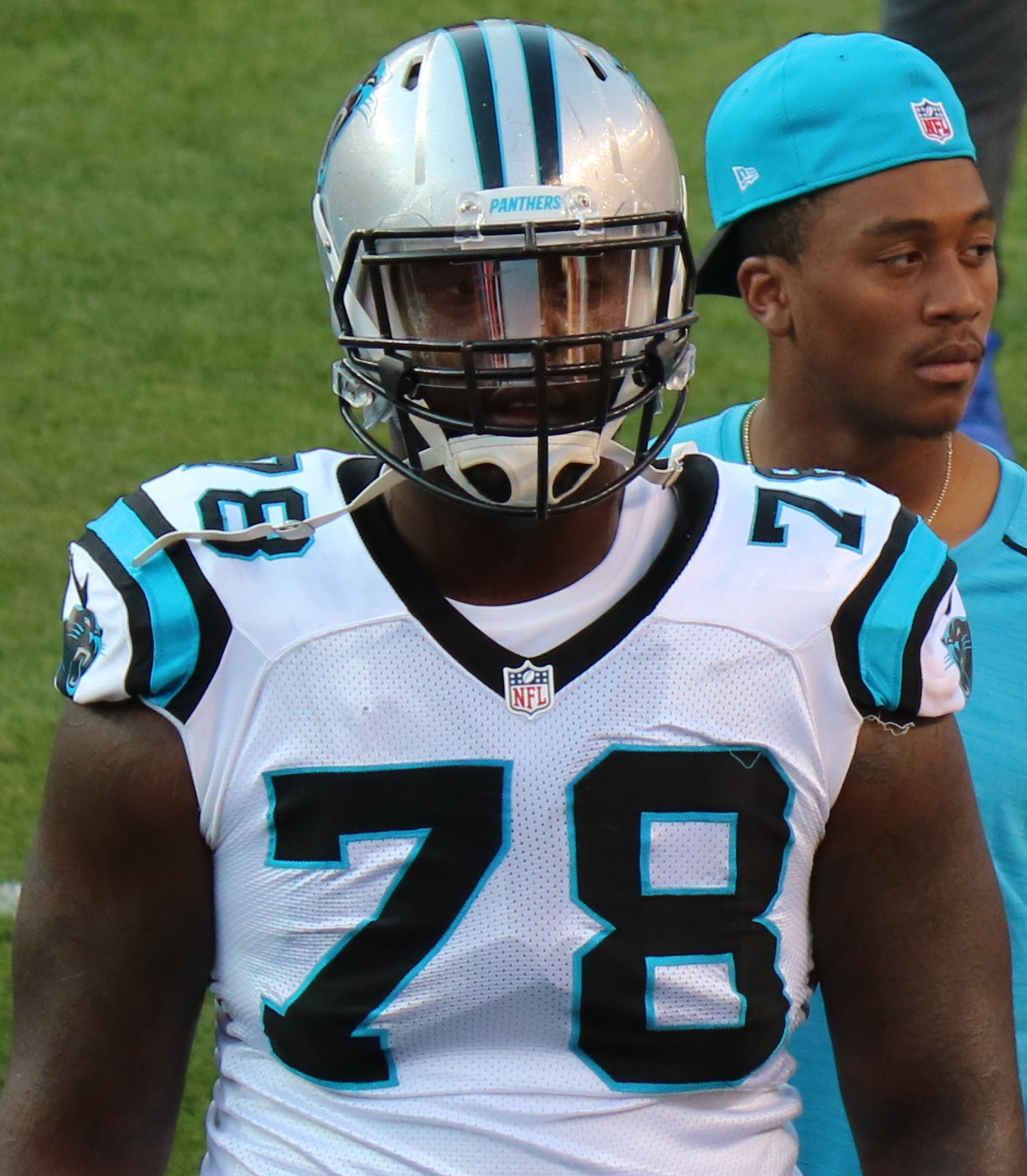 Donald Hawkins, a player on the National Football League.